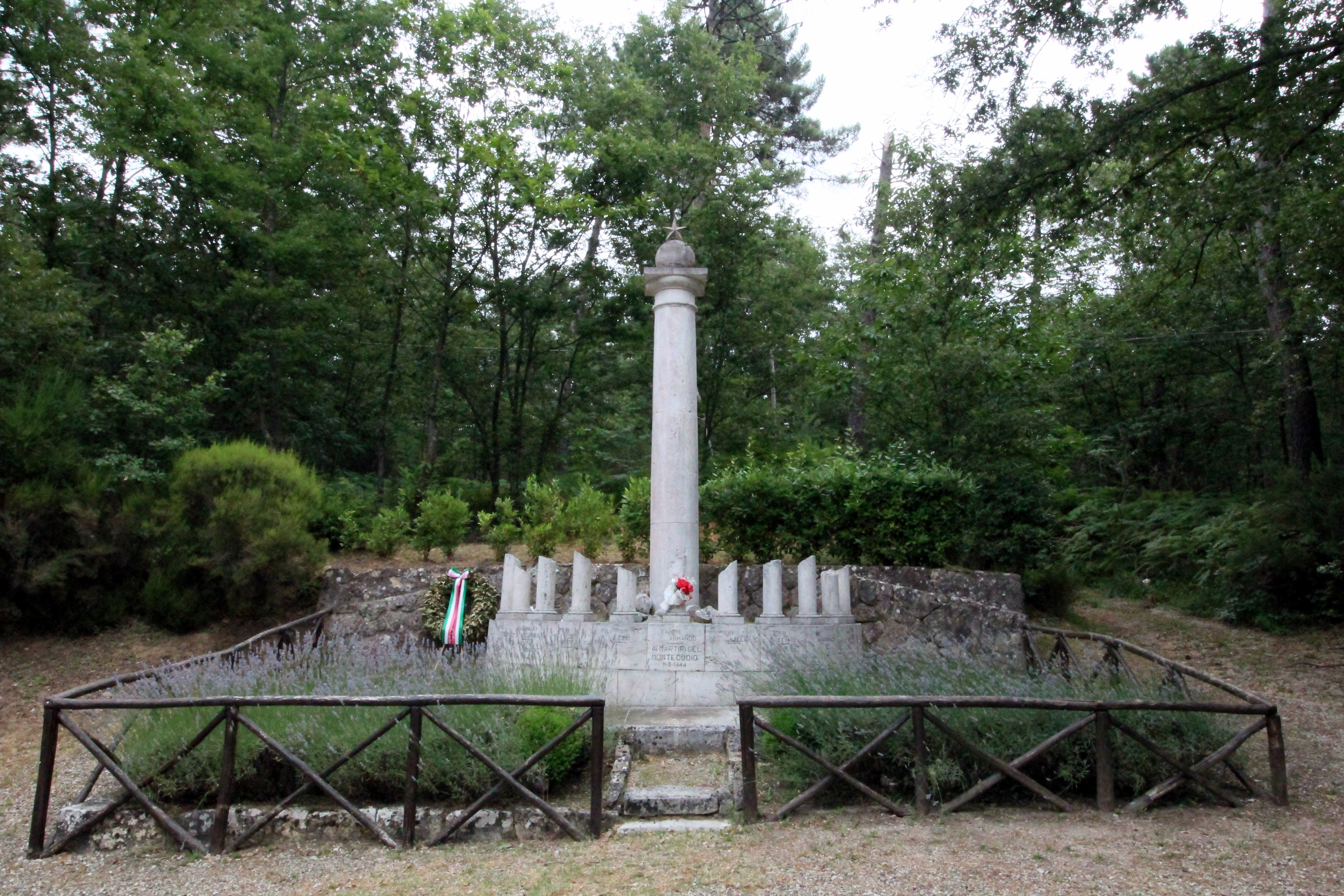 War memorial Monumento ai Martiri di Scalvaia, Scalvaia, hamlet of Monticiano, Province of Siena, Tuscany, Italy